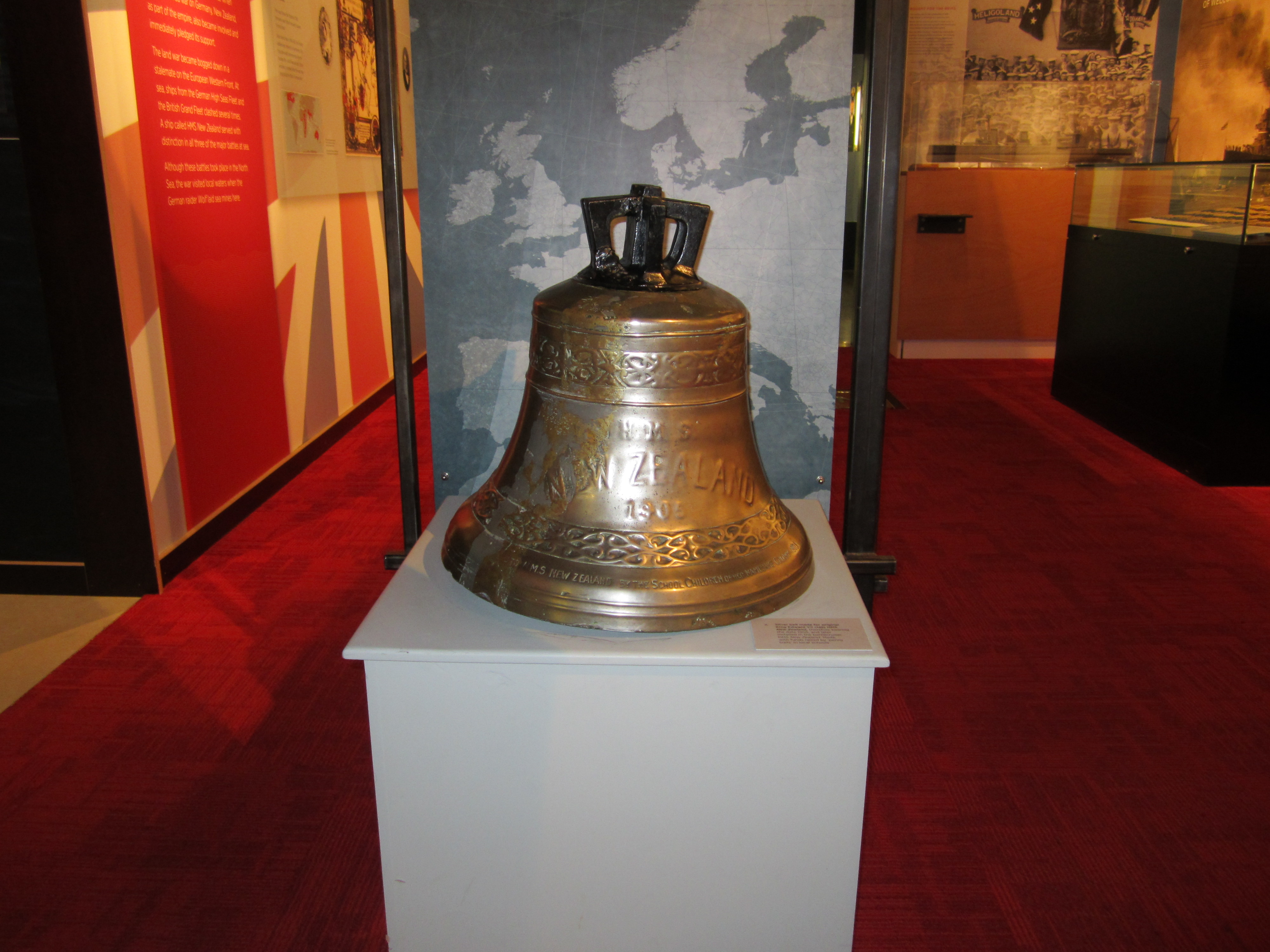 The bell used on both the armoured cruiser HMS New Zealand and the battlecruiser HMS New Zealand on display at the Torpedo Bay Navy Museum in June 2012